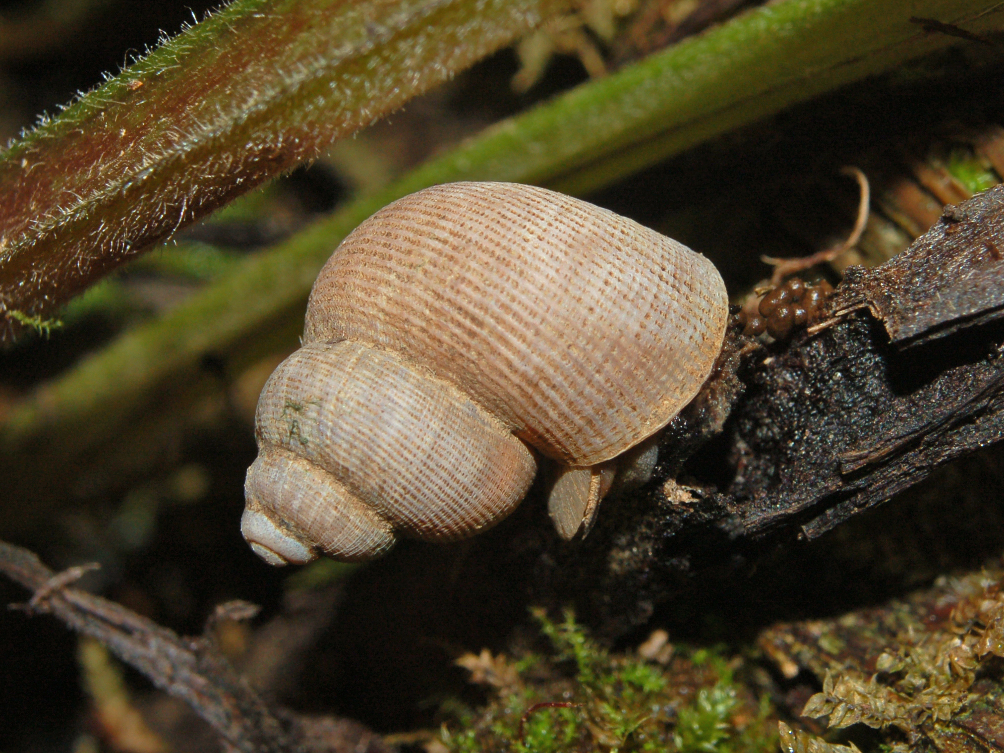 Pomatias elegans - Val Noci, Genova, Italy